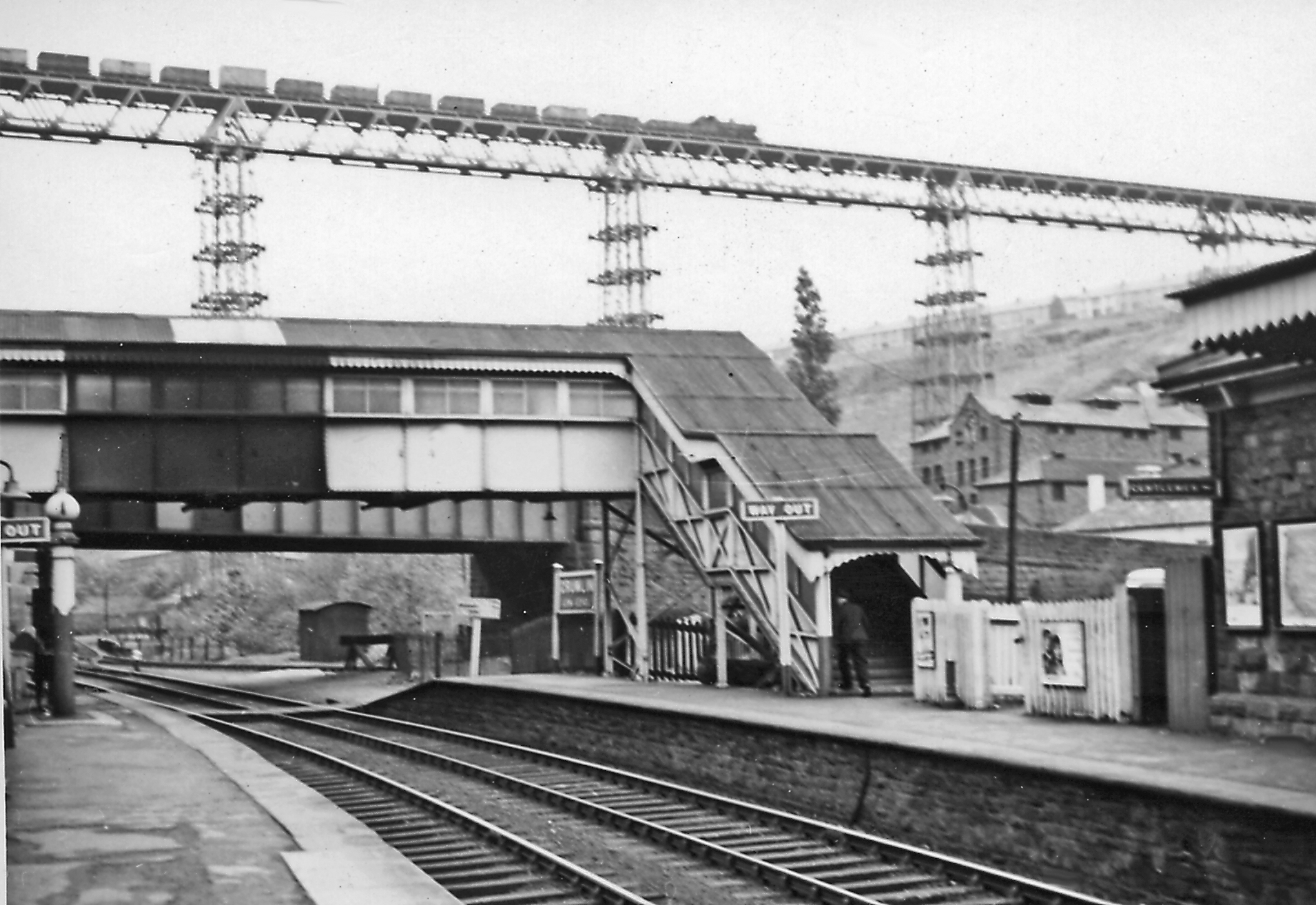 Crumlin (Low Level) station and Crumlin Viaduct. View NE, towards Aberbeeg and Ebbw Vale/Brynmawr on the ex-GW Newport - Western Valleys lines. The station and both lines closed to passengers from 30/4/62. Freight ceased on the Ebbw Fach line in 1975, but has continued to Ebbw Vale. On the restored passenger service to Ebbw Vale, commencing on 6/2/08, the nearest station is Newbridge. High up on the celebrated viaduct of the ex-GW Neath - Pontypool Road line, just east of Crumlin (High Level), is an eastbound coal train - looking very perilous. (See also 2986887).